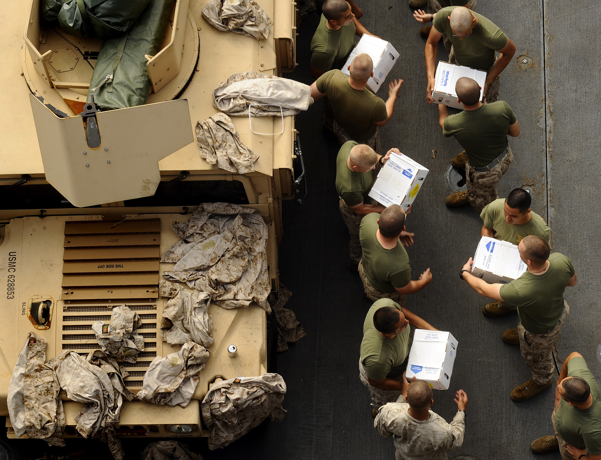 ATLANTIC OCEAN (May 23, 2009) Marines from the 22nd Marine Expeditionary Unit (22 MEU) transfer stores from the flight deck to below decks aboard the amphibious dock landing ship USS Fort McHenry (LSD 43) during a vertical replenishment with the military sealift command fleet replenishment oiler USNS John Lenthall (T-AO 189). Fort McHenry is on a scheduled deployment with the Bataan Amphibious Readiness Group (ARG) supporting maritime security operations in the U.S. 5th and 6th Fleet areas of responsibility. (U.S. Navy photo by Mass Communication Specialist 2nd Class Kristopher Wilson/Released)